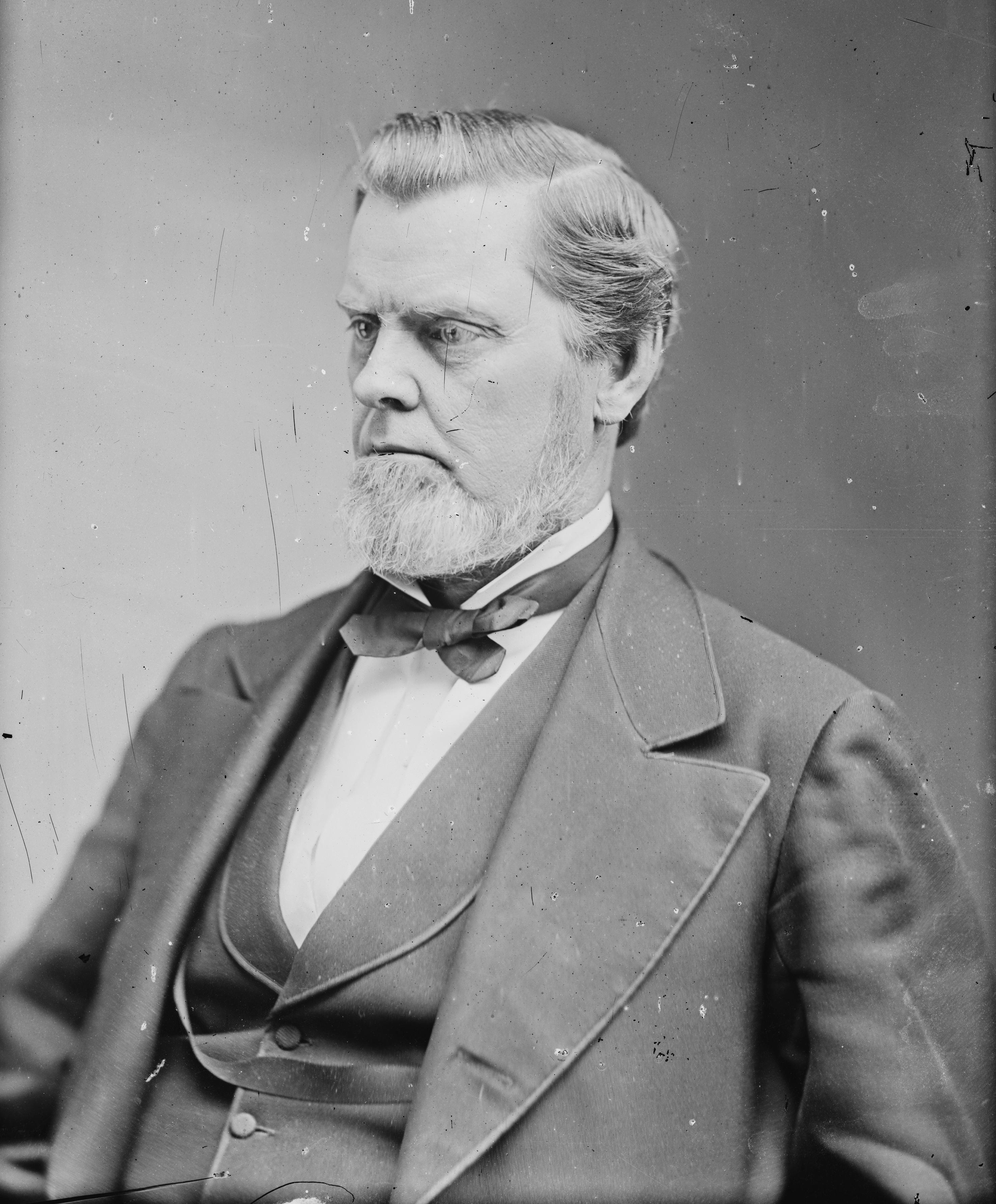 Benjamin Harvey Hill. Library of Congress description: "Hill, Hon. Ben H. of GA"